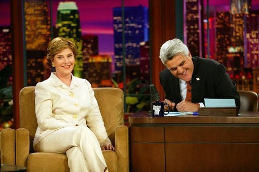 Laura Bush makes an appearance on The Tonight Show with Jay Leno in Burbank, Calif., May 19, 2004.